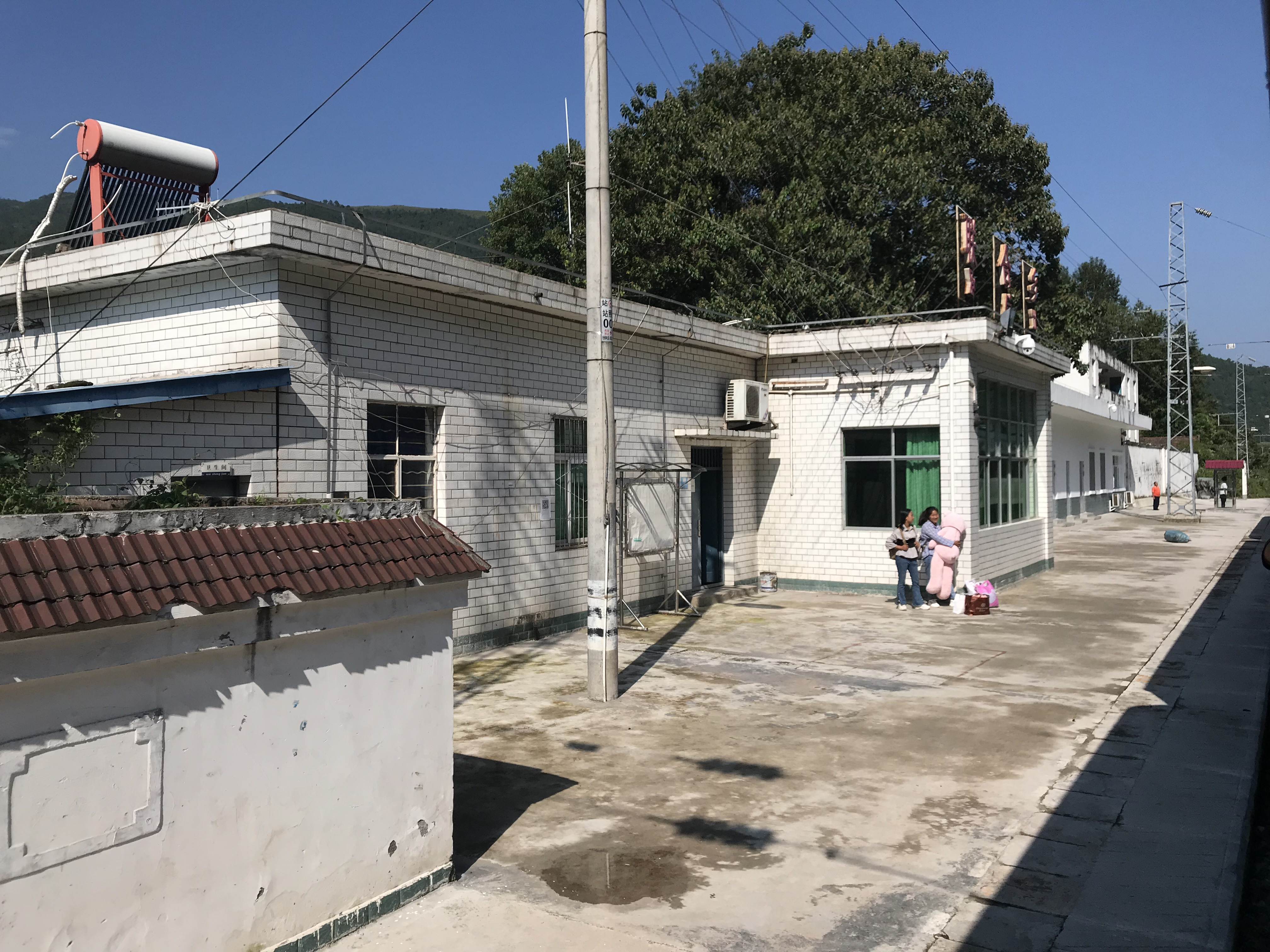 201908 Station Building of Lianhexiang